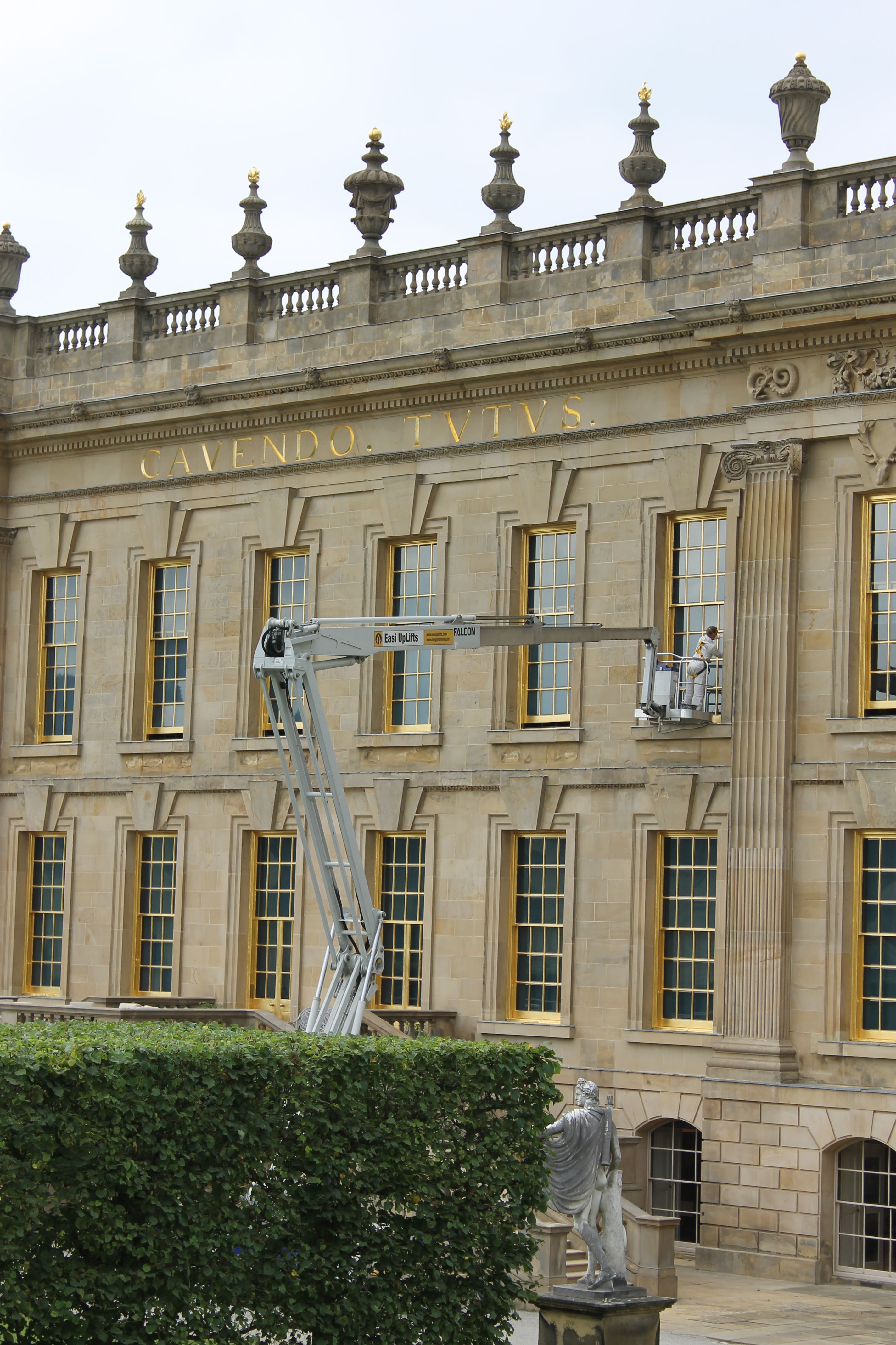 Window cleaning at Chatsworth House, Derbyshire